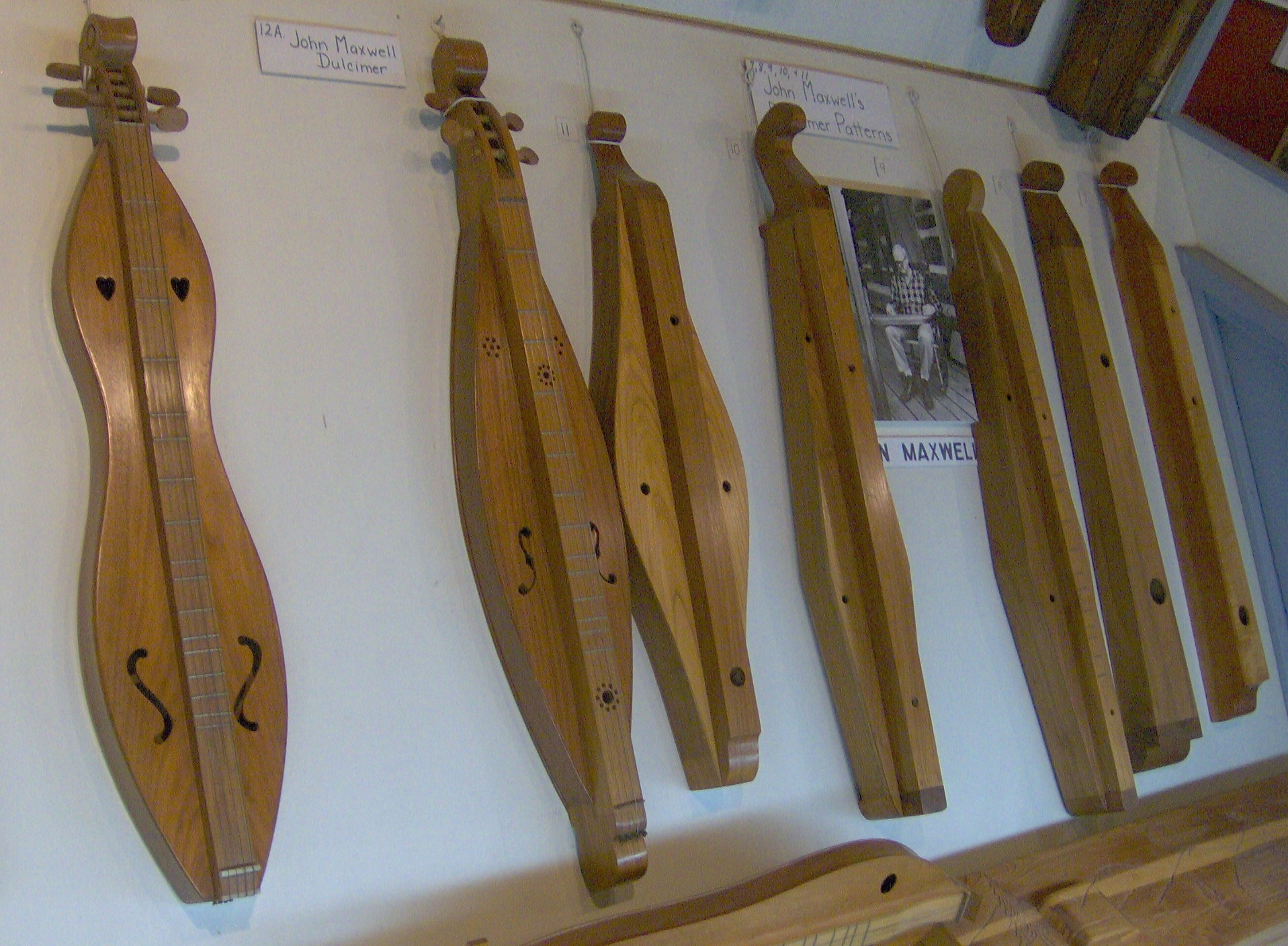 Collection of Appalachian dulcimers (sometimes called "fretted" or "mountain" dulcimers) on display at the Museum of Appalachia in Norris, Tennessee, USA. These dulcimers were designed by dulcimer maker John Maxwell. This display is in the museum's "Appalachian Hall of Fame" building near the museum entrance. The Appalachian dulcimer is a type of zither, and shouldn't be confused with the hammered dulcimer.